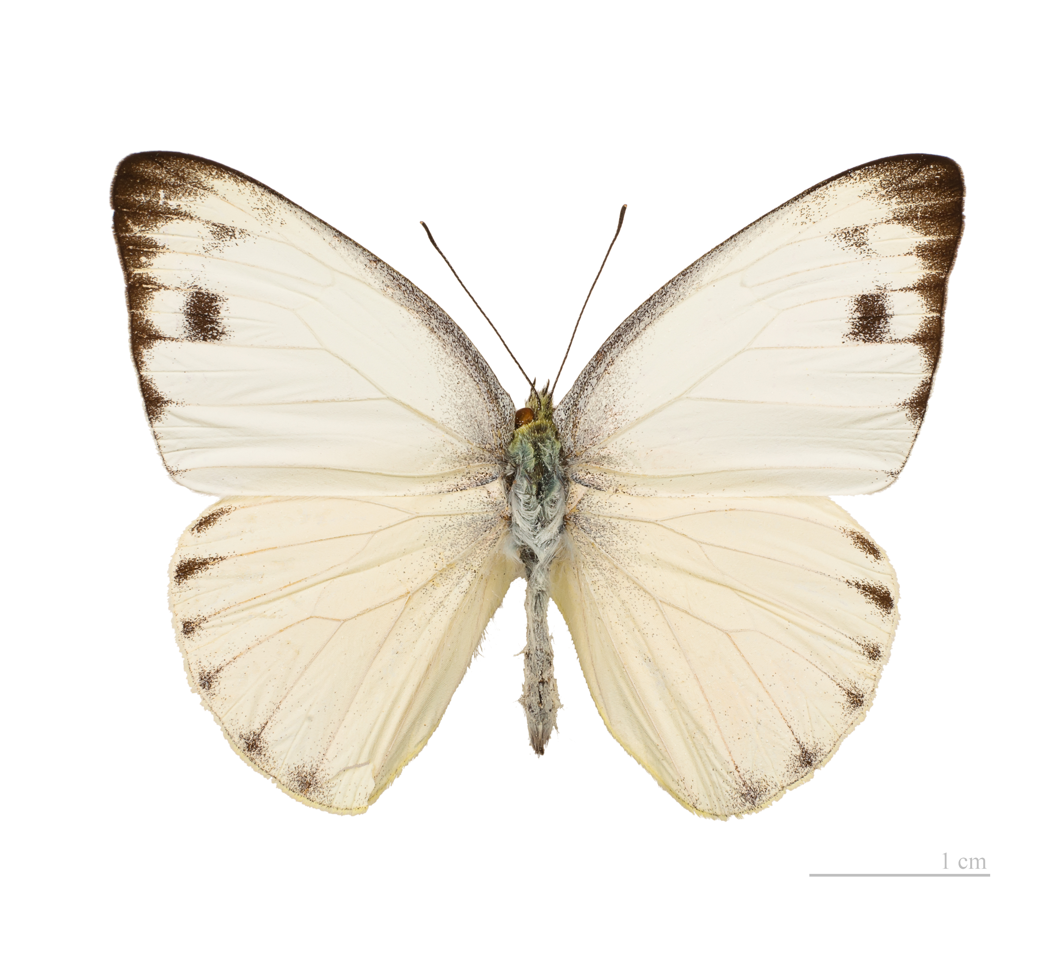 ♂ - Dorsal side Locality: Palawan, Philippines.